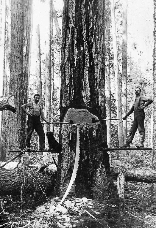 Photograph, glass lantern slide, Two men chopping down a large tree, BC(?), about 1895, Anonymous, Silver salts on glass - Gelatin dry plate process - 8 x 10 cm